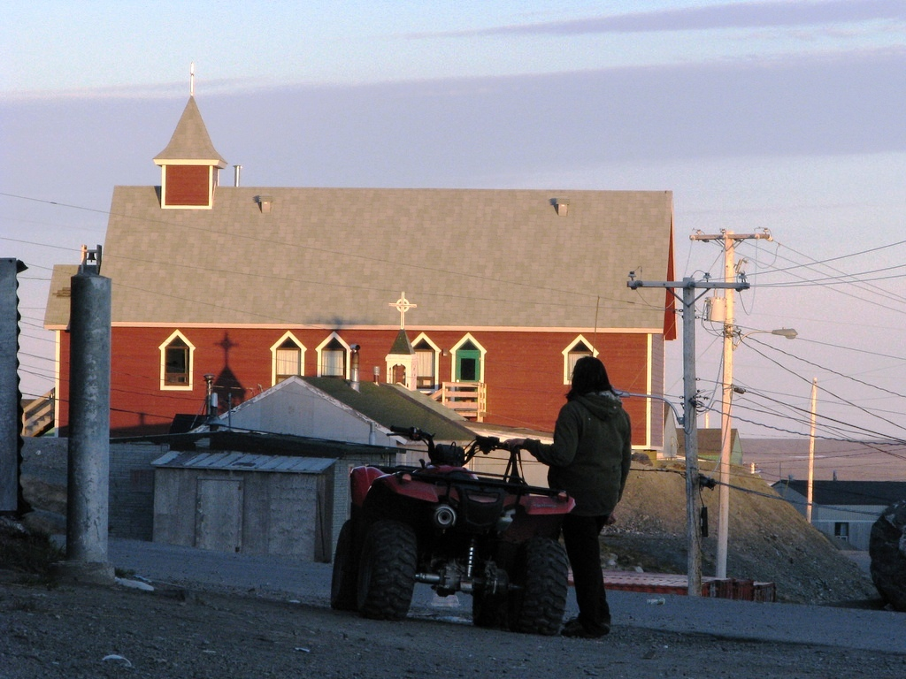 Church in Kangirsuk, Nunavik, Northern Quebec.